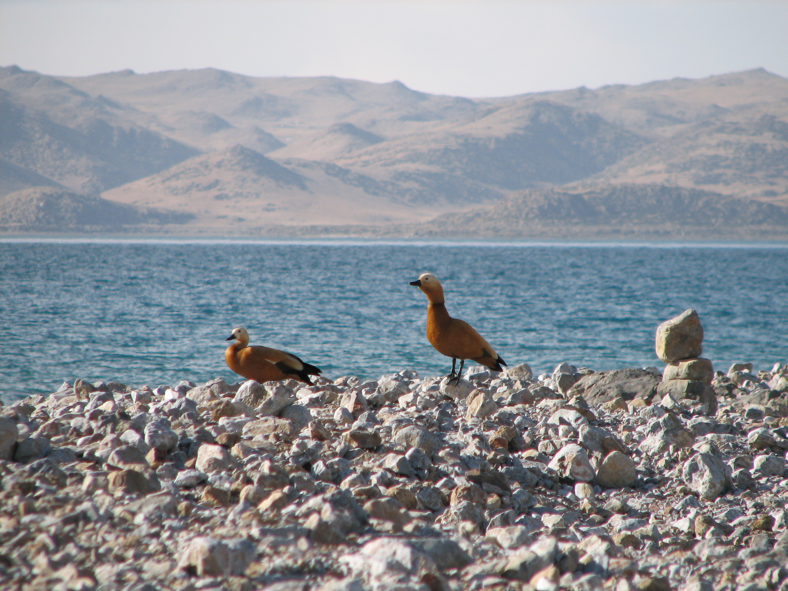 Ruddy Shelduck Tadorna ferruginea in wild. Namtso lake (125km N of Lhasa), Tibet 30°46'41"N 90°51'18"E, 4730m altitude.